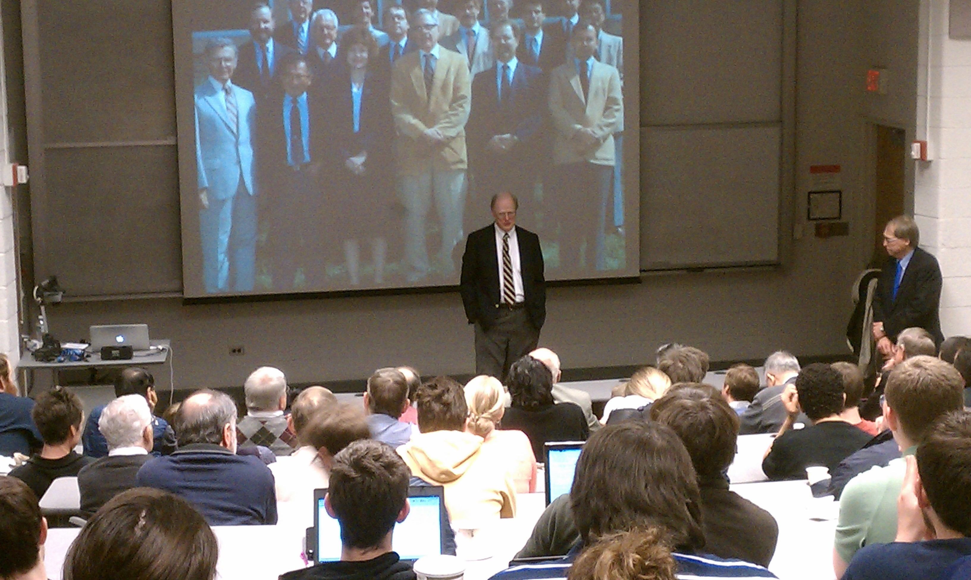 James Duderstadt giving a presentation at the University of Michigan. The presentation was entitled "Lessons Learned from a Half Century of Battles in the Nuclear Power Wars".